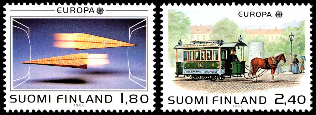 Postage stamps of Finland, 1988. Issue under the EUROPA CEPT program.